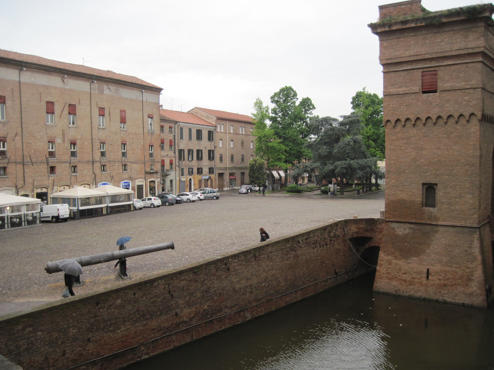 Coperta road, Ferrara